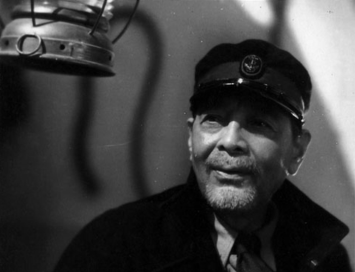 Masao Inoue in Tōkakan no jinsei (十日間の人生) directed by Minoru Shibuya